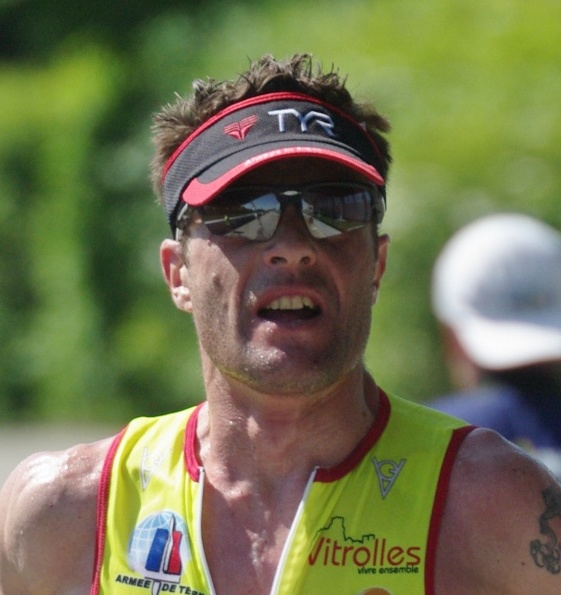 French triathlete François Chabaud in the Ironman 70.3 Austria on 20 May 2012 in St. Pölten.